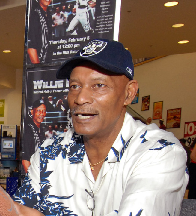 070208-N-4965F-002 Pearl Harbor, Hawaii - Willie Brown, Pro Football Hall of Fame cornerback for the Oakland Raiders at a signing session at the Pearl Harbor Navy Exchange. Brown is currently in Honolulu, Hawaii for the 28th consecutive Pro Bowl at Aloha Stadium.